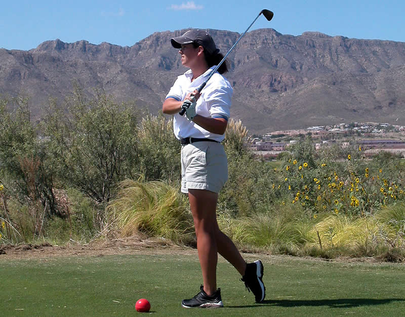 Air Force 2nd Lt. Linda Jeffery watches her tee shot off the ninth tee Sept. 28 during the final round of the U.S. Armed Forces Golf Championships at Fort Bliss, Texas.